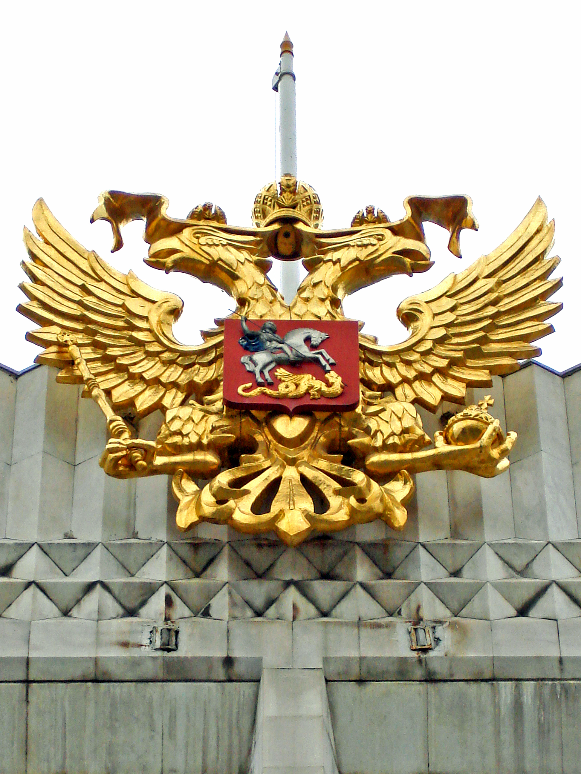 PLEASE, no multi invitations in your comments. Thanks. I AM POSTING MANY DO NOT FEEL YOU HAVE TO COMMENT ON ALL - JUST ENJOY. National Insignia